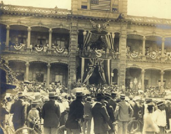 Admission Day Ceremony of the Territory of Hawaii held on June 14, 1900 when the Hawaiian Organic Act formally came into effect.